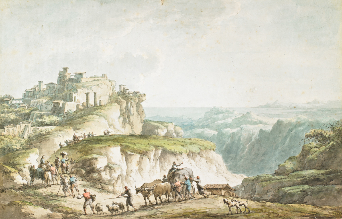 View of Catanzaro by Claude-Louis Châtelet, about 1780